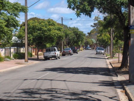 Millswood Crescent, Millswood (South Australia), looking towards the south-west, from the Goodwood Road end.